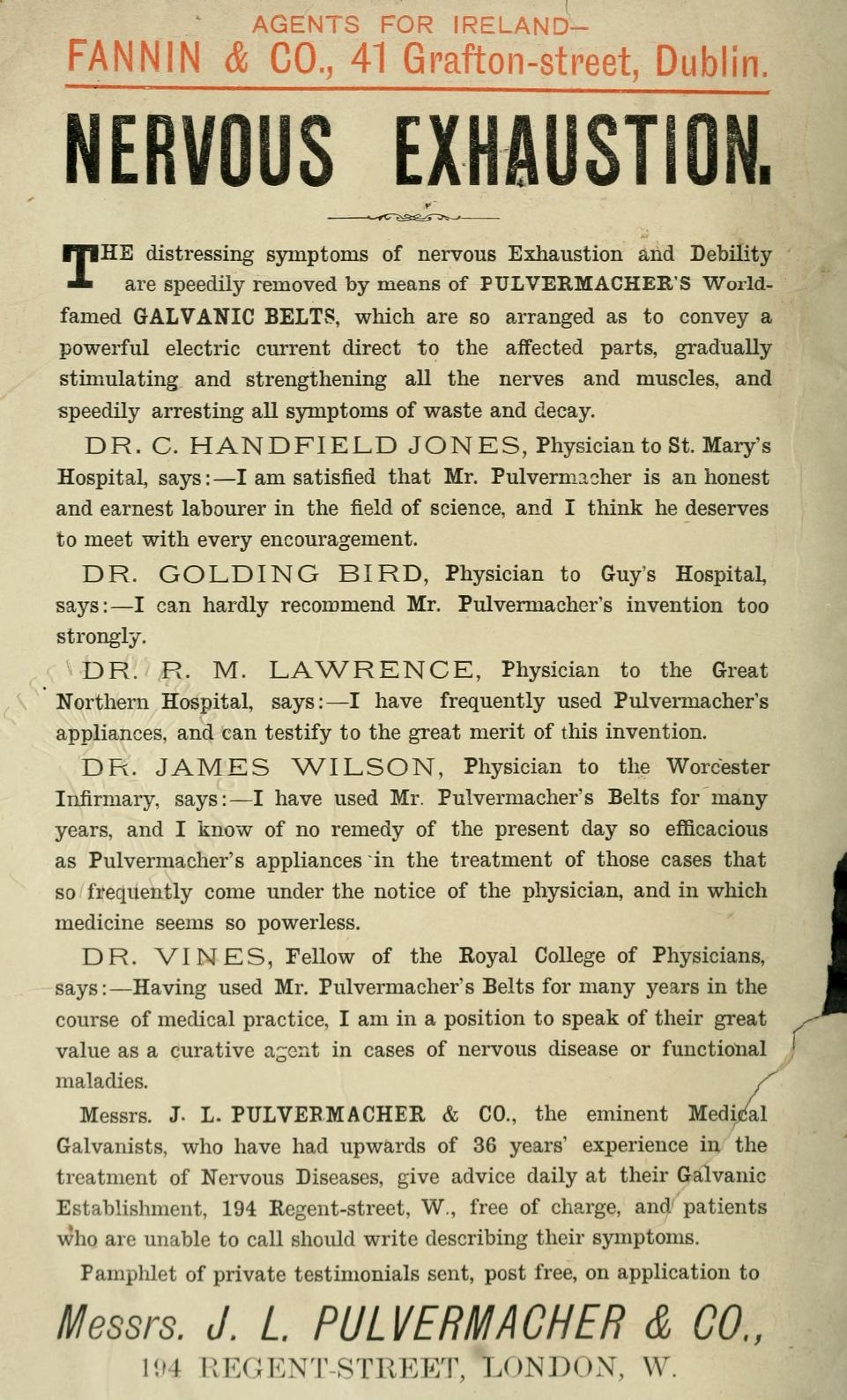 Advertisement for Pulvermacher's belt/chain